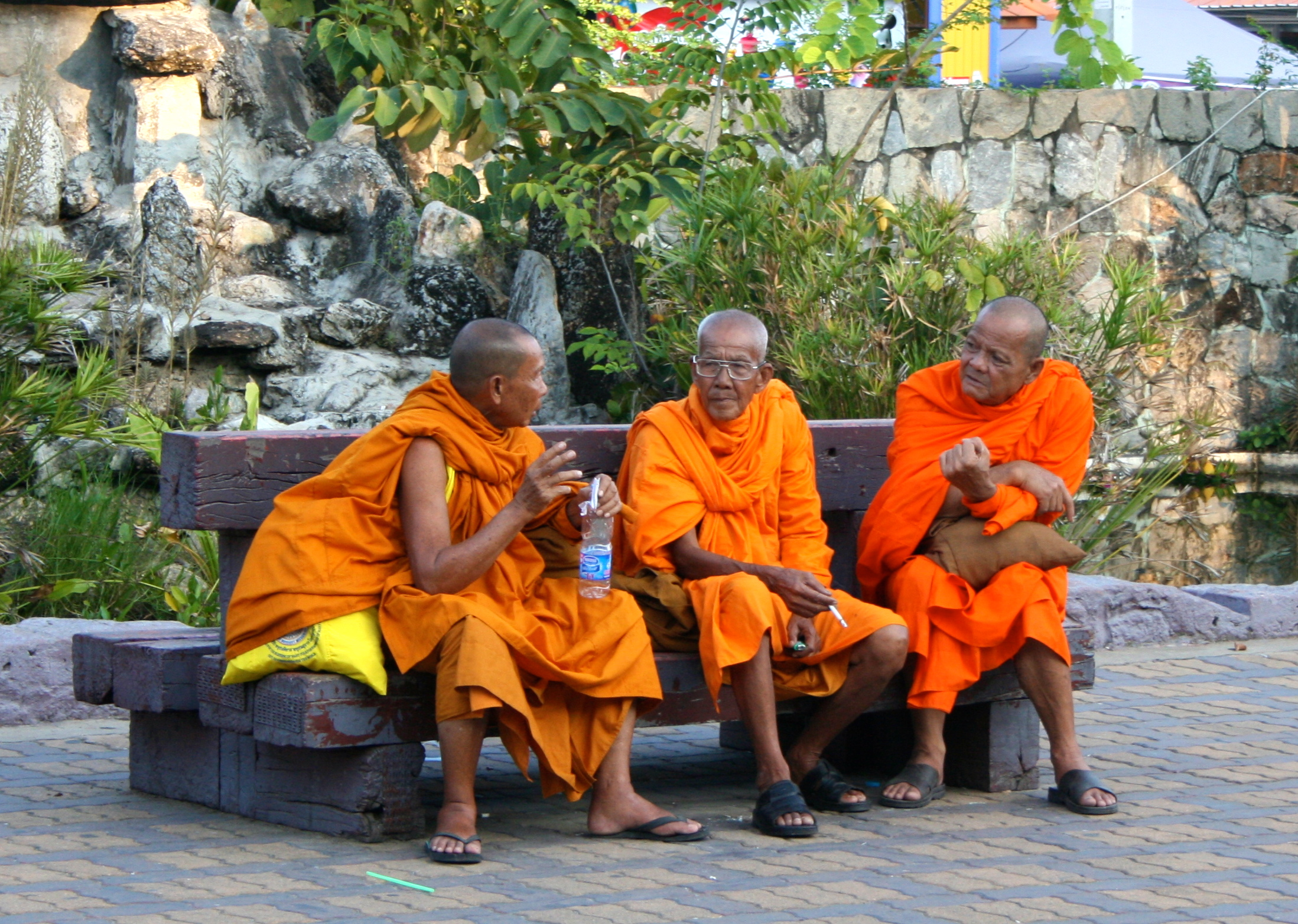 Buddist Monks chatter and enjoy a smoke while they wait for the train